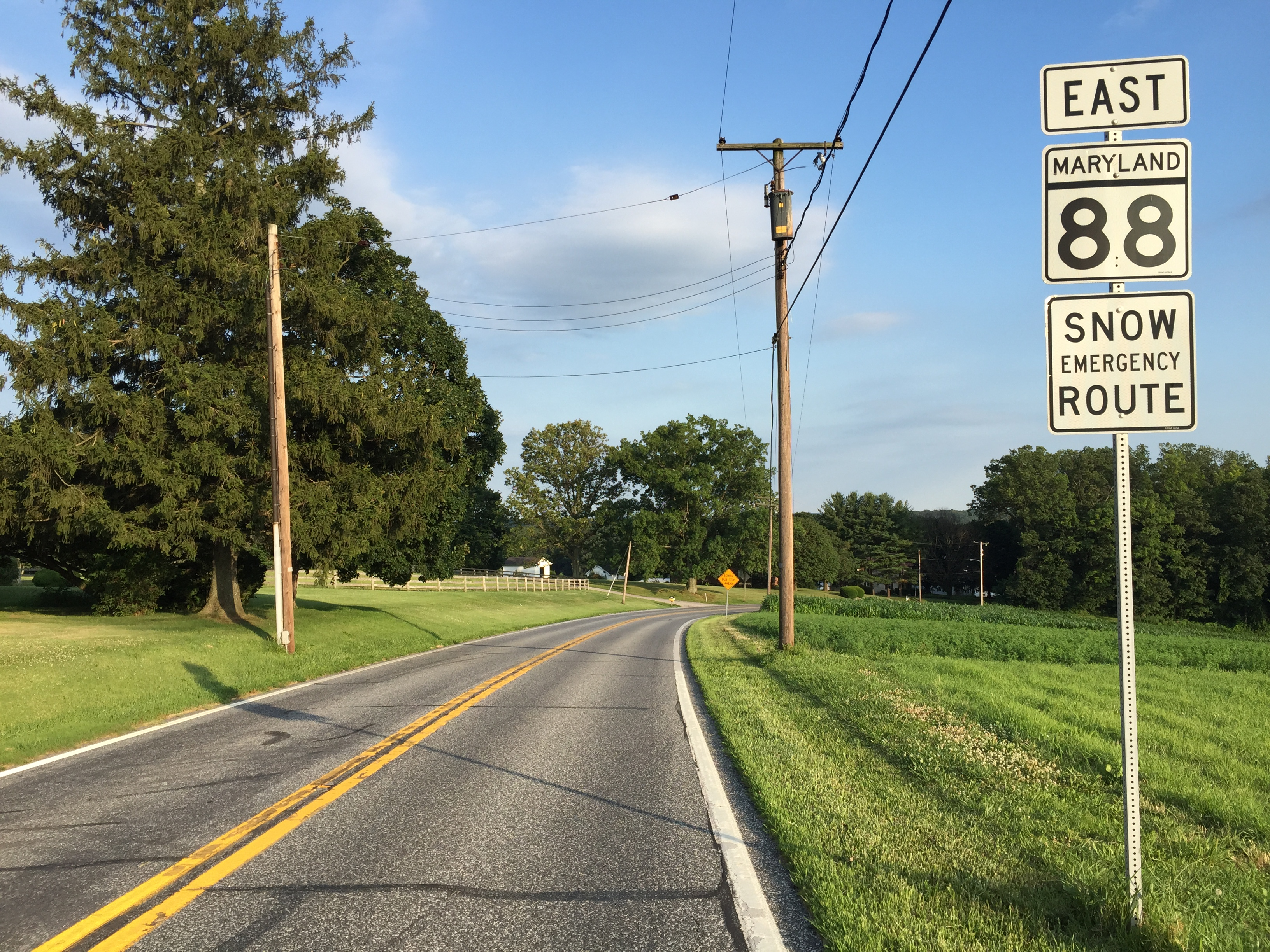 View east along Maryland State Route 88 (Black Rock Road) just east of Mount Zion Road in Baltimore County, Maryland